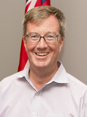 City of Ottawa at the 2013 AMO Conference